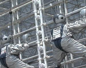 Wall Climbing Robots for Japanese Industry Pavilion at Shanghai Expo